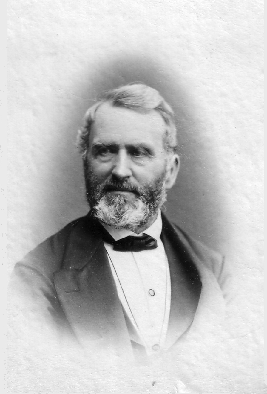 Portrait of Dr. Heirich Arnold Thaulow (1808-1894)